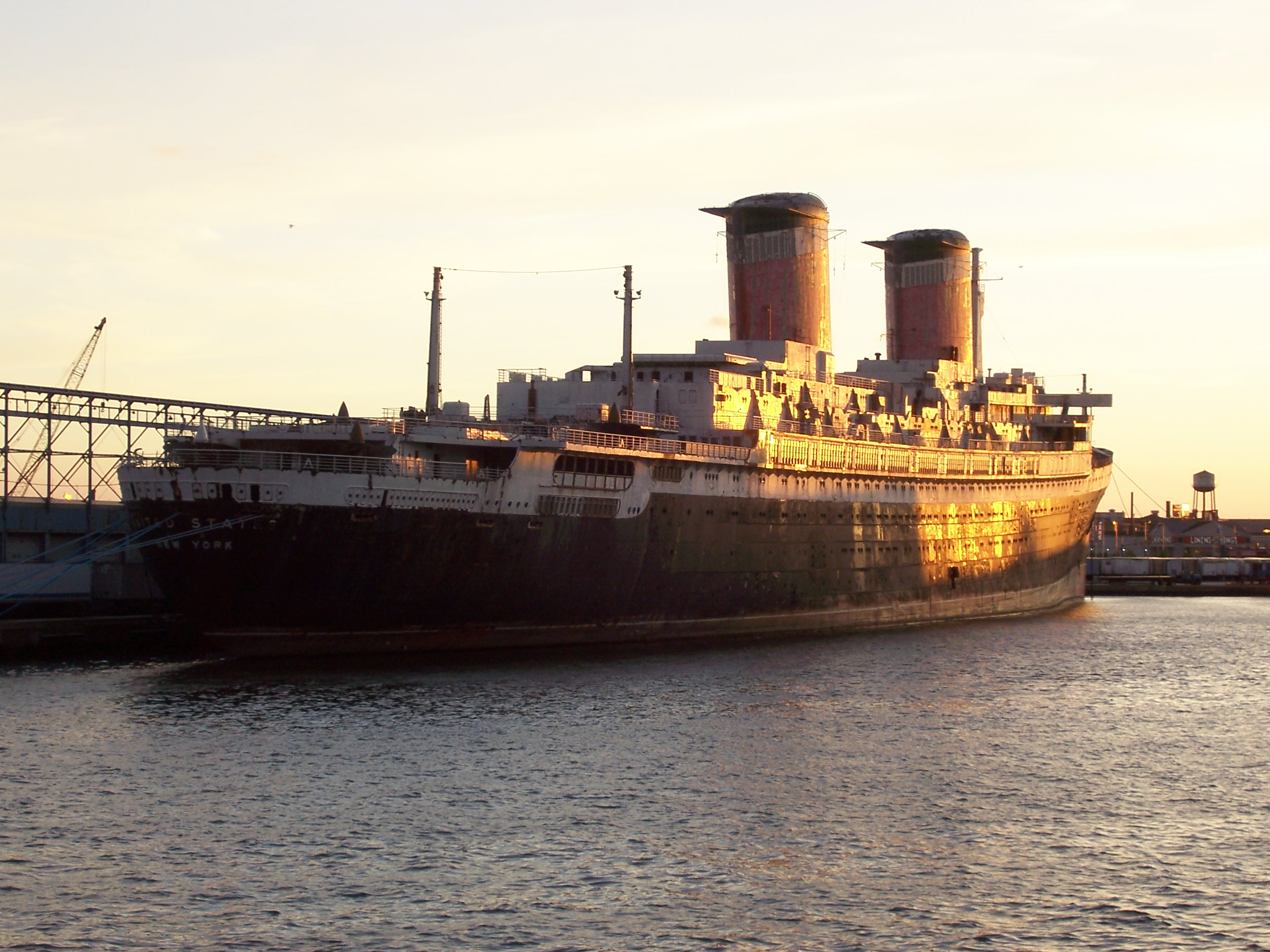 The SS United states Docked